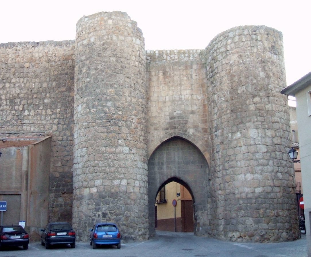 Puerta de Herreros, en Almazán (Soria, España)